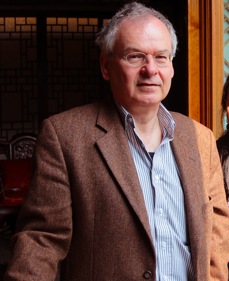 Photograph of the German composer Reinhard Febel visiting Gahoe-dong 31-79 in Seoul, S. Korea, on 28/03/2012